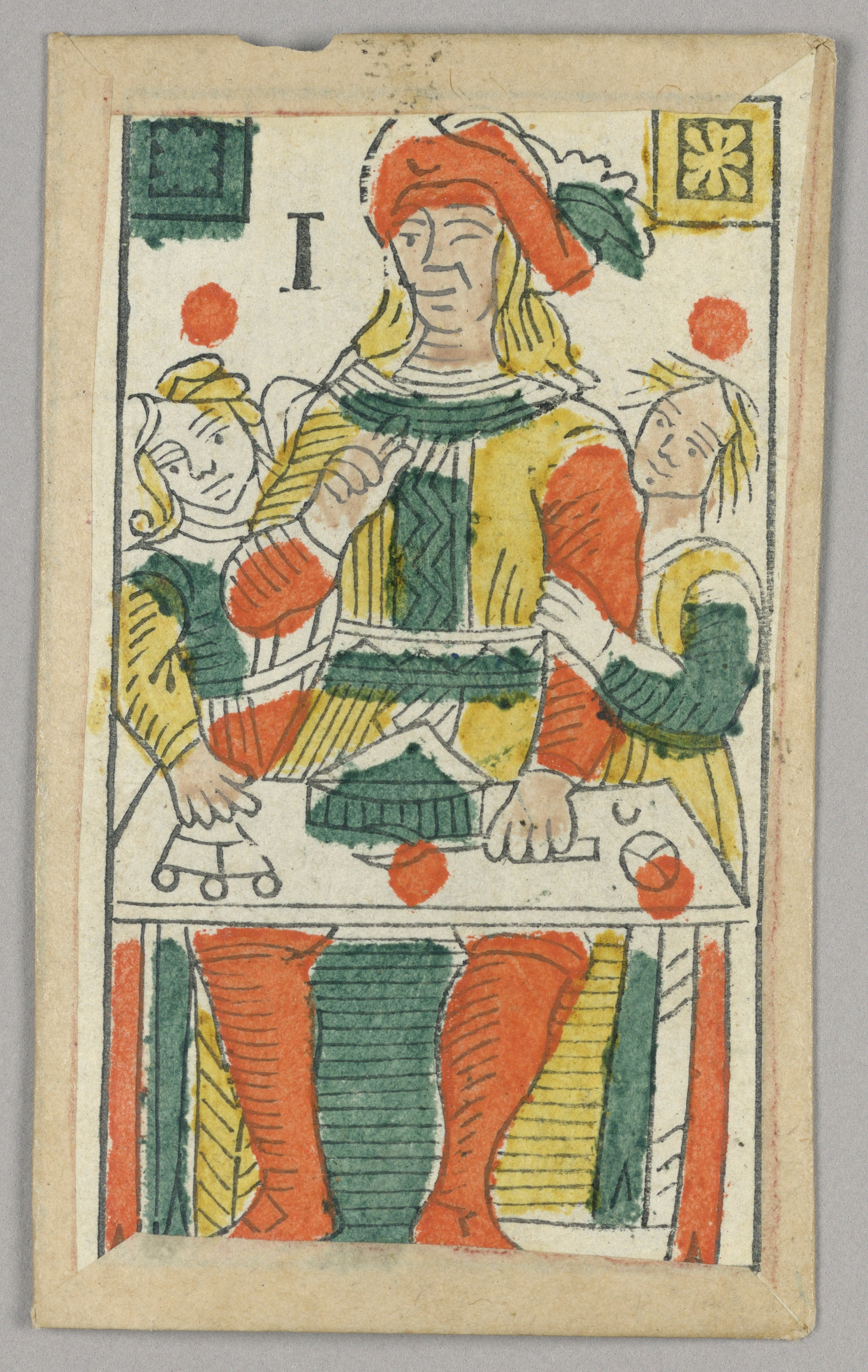 Part of an Italian Minchiate set of playing cards